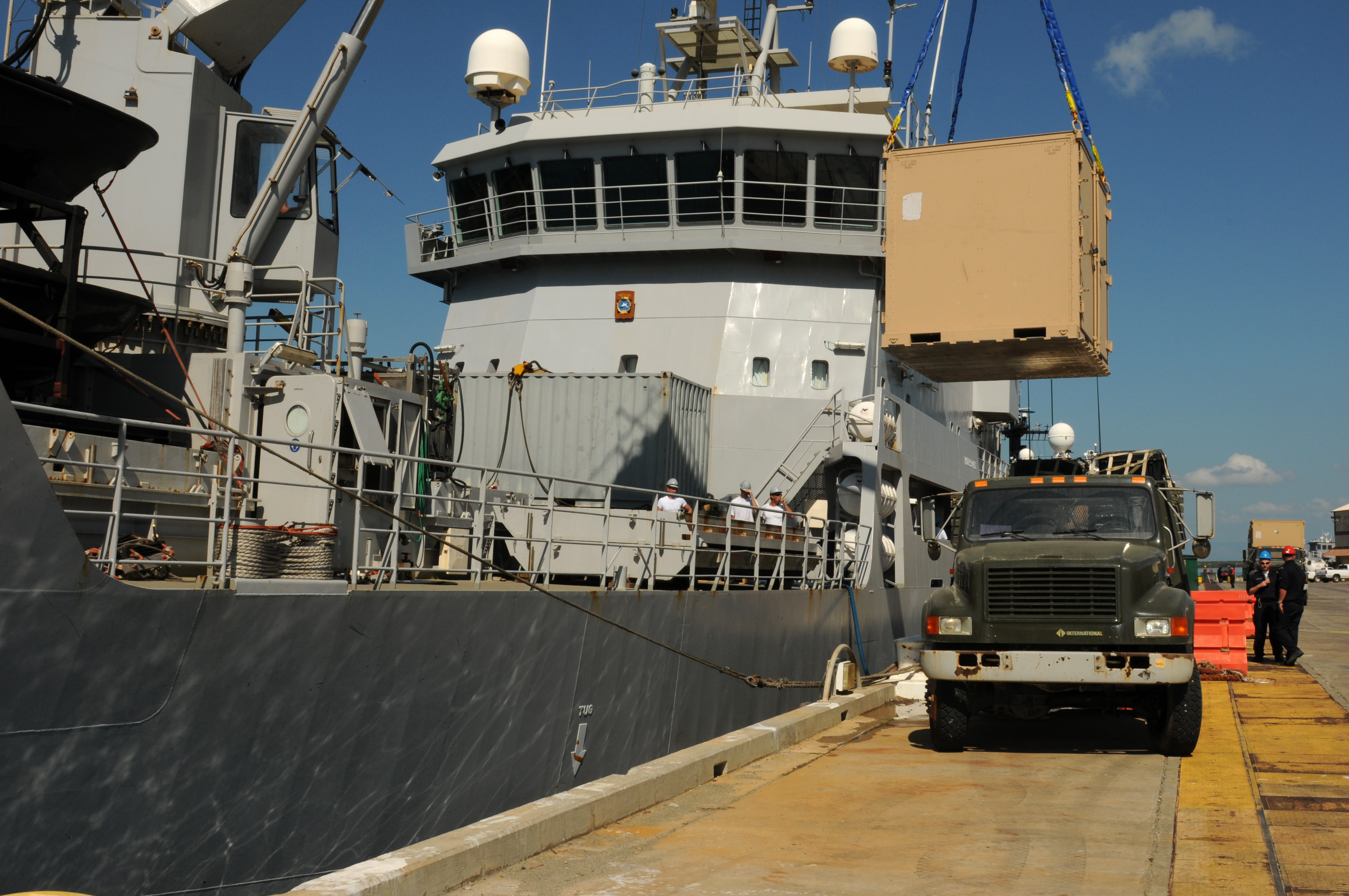 GUANTANAMO BAY, Cuba (Jan. 22, 2010) Supplies are loaded onto the Royal Netherlands navy logistics support vessel HNLMS Pelikaan (A804) at Naval Station Guantanamo Bay. Pelikaan will be transporting supplies and members from Mobile Diving Salvage Unit (MDSU) 2 to Haiti to support Operation Unified Response after a 7.0 magnitude earthquake hit the area on Jan. 12, 2010. MDSU-2 will assist in assist in evaluating, clearing and cleaning ports and harbors in Haiti. (U.S. Navy photo by Mass Communication Speciailist 1st Class Edward Flynn/Released)